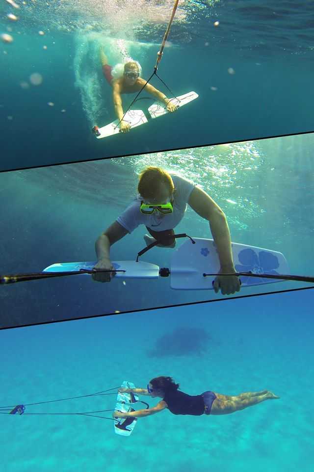 Subwing in action